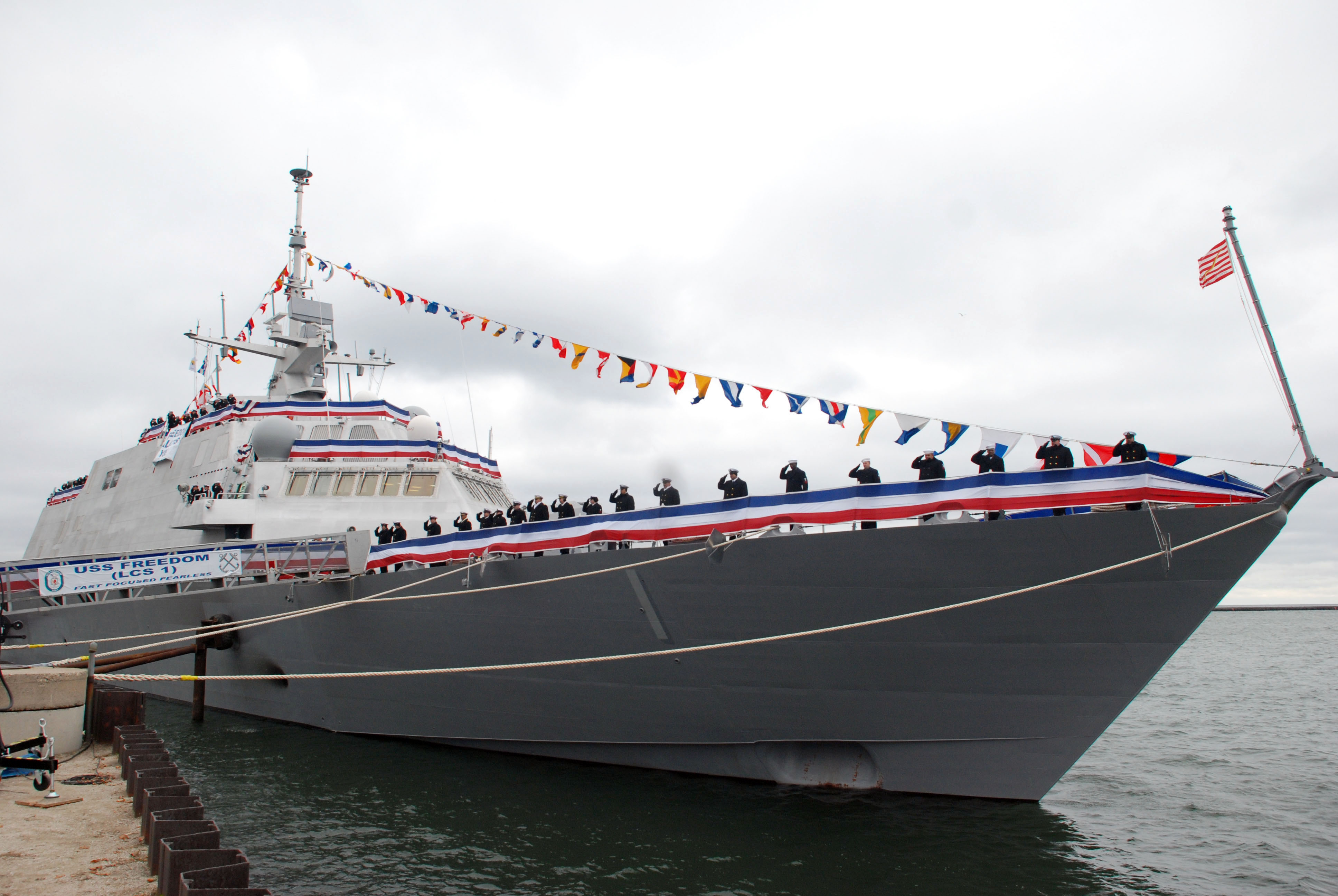 081108-N-9269B-092 MILWAUKEE (Nov. 8, 2008) The crew of the littoral combat ship USS Freedom (LCS 1) mans the rails during her commissioning ceremony at Veterans Park in Milwaukee, Wis. Freedom is the first of two littoral combat ships designed to operate in shallow water environments to counter threats in coastal regions. (U.S. Navy photo by Mass Communication Specialist 2nd Class Katherine Boeder/Released)